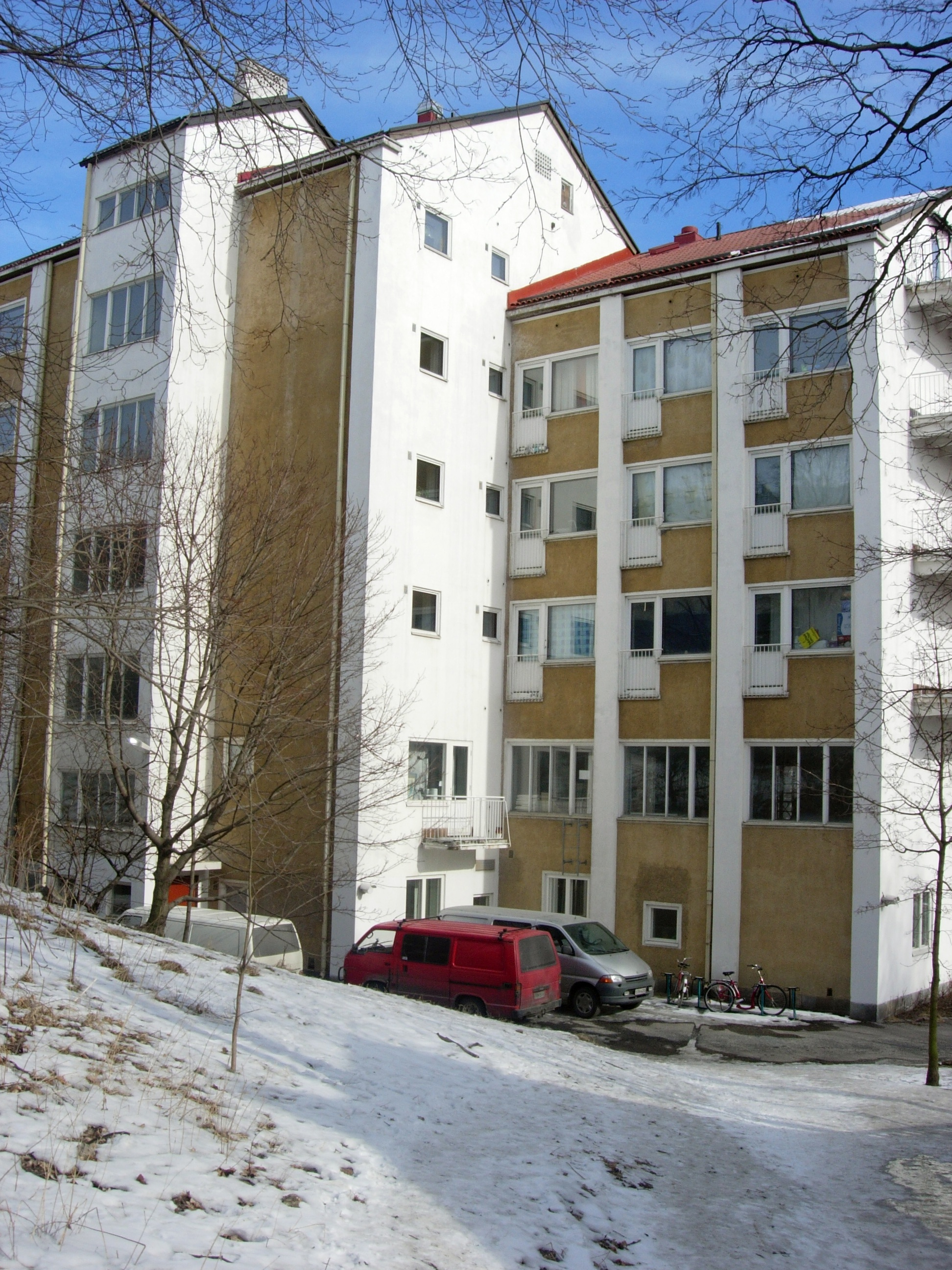 Ylioppilastalo in Turku, architecht Erik Bryggman.